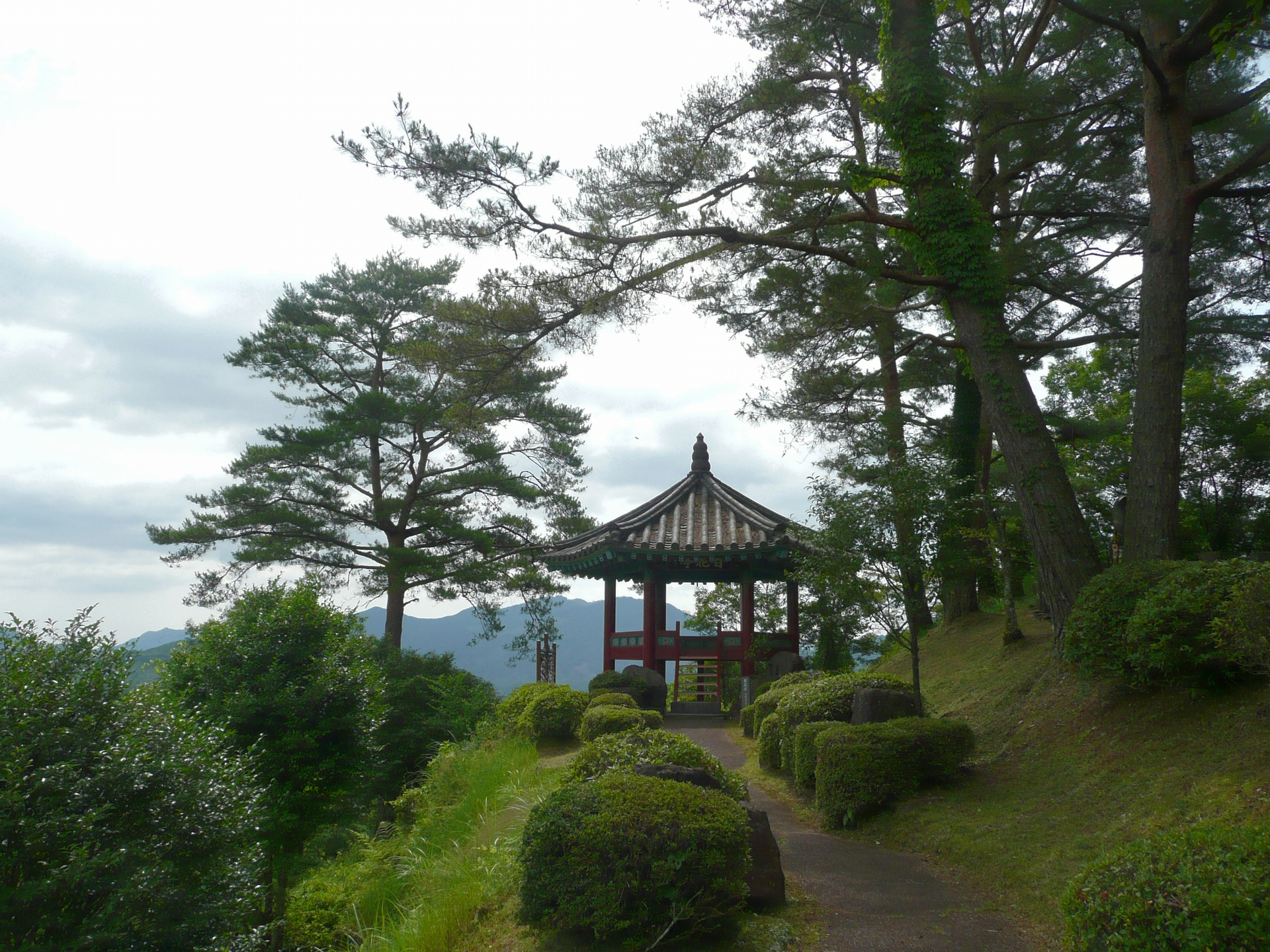 Lover's Hill (Koibito-no-Oka) and Hyakuka-Tei (Nangō, Misato Town, Miyazaki, Japan)